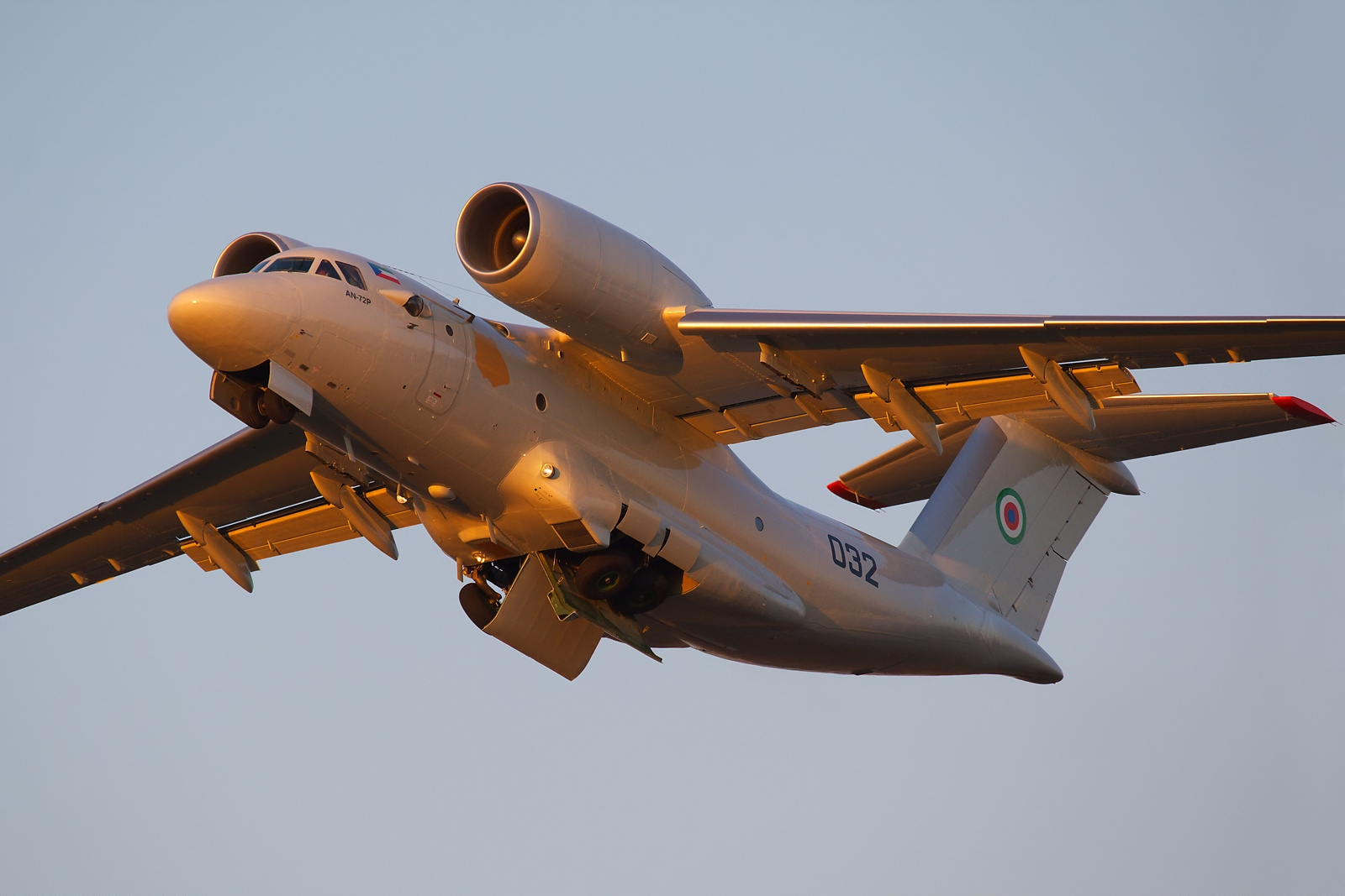 Test flight on a sunbeam just exotically painted, so the bottom details are clearly visible / hi-res image - 1600 pix.